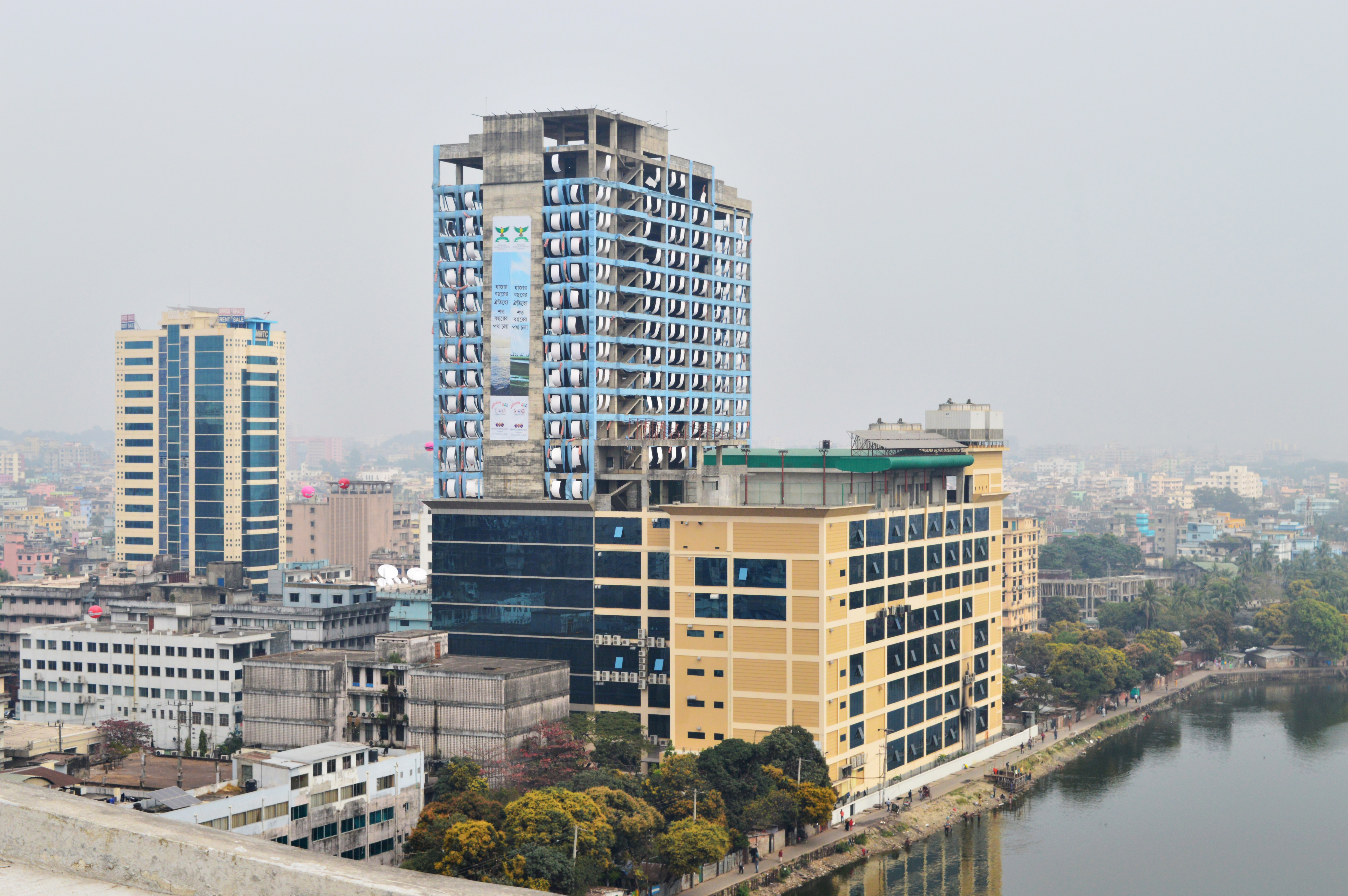 Back view of World Trade Center Chittagong from C&F Tower